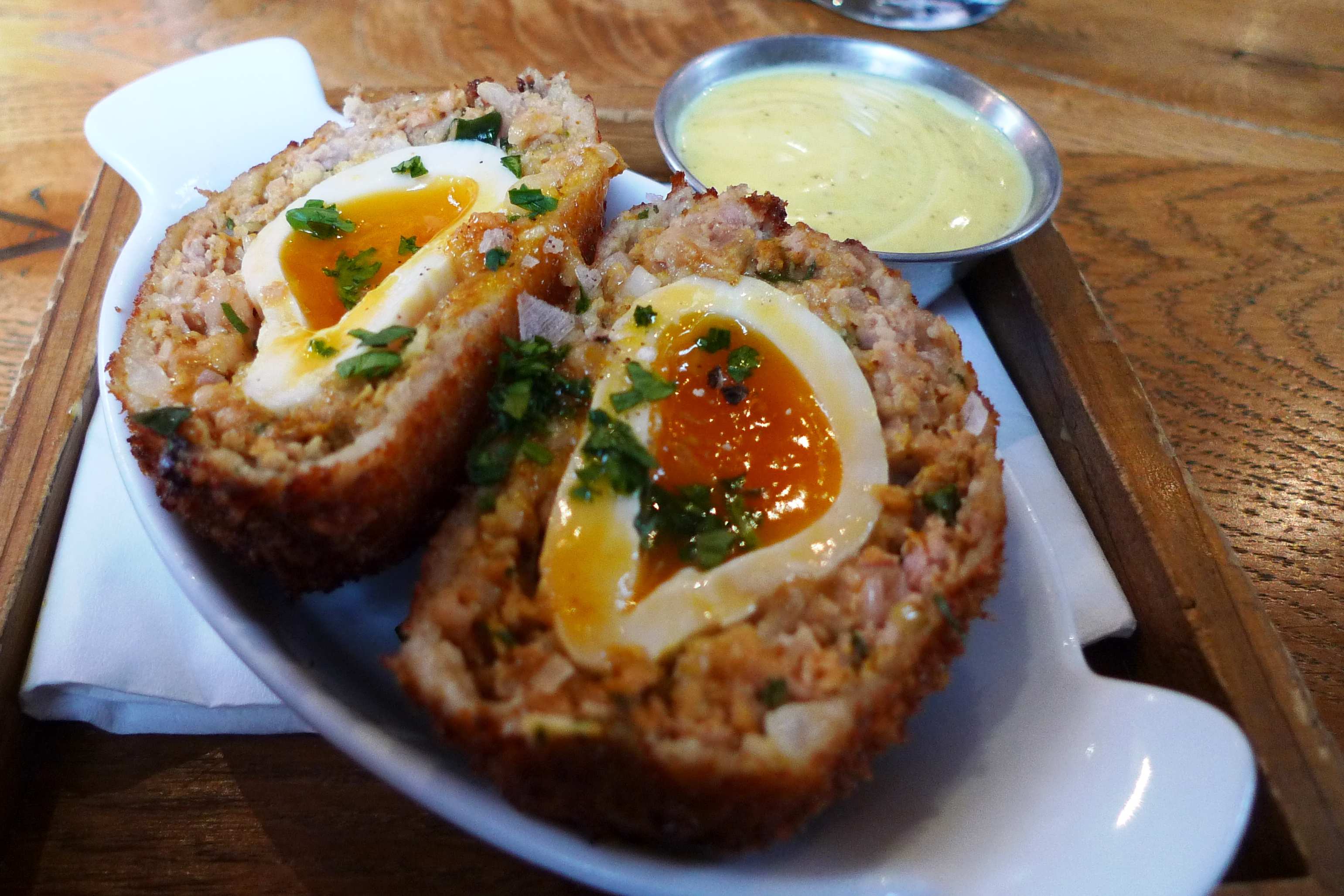 A scotch egg as eaten in September 2012. Nice flavour, bit of a curry and coriander kick. Runny yolk. Top marks. At The Draft House, Tower Bridge Road. (An earlier scotch egg, same place.)